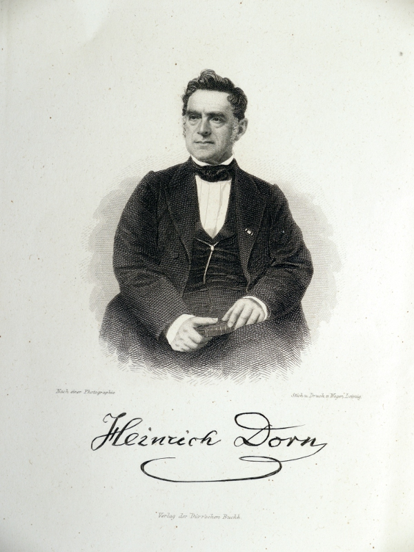 German composer and dirigent Heinrich Dorn (1804—1892)